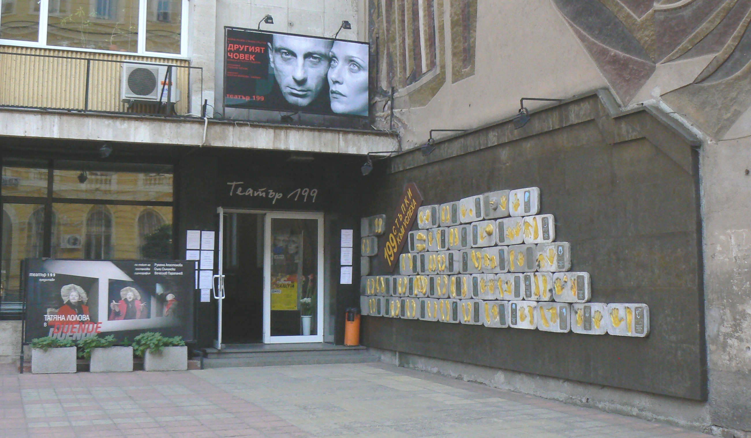 Entrance of “Theater 199” with the Wall of fame on the right. Sofia, Bulgaria